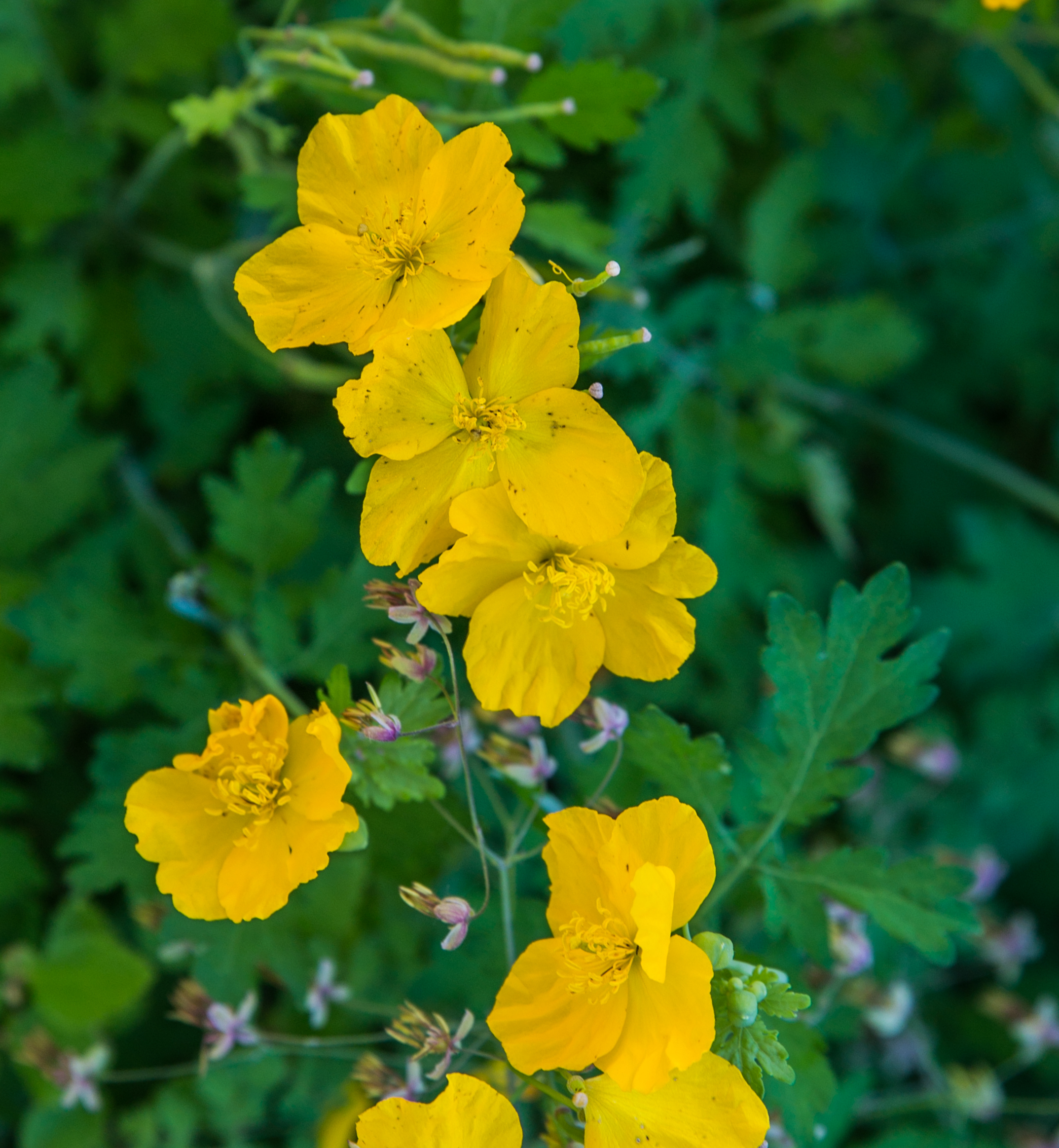 Greater celandine (Chelidonium majus) on the Takmak path of Stolby reserve in Krasnoyarsk city.